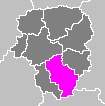 A map of the arrondissement of Tulle (Corrèze)